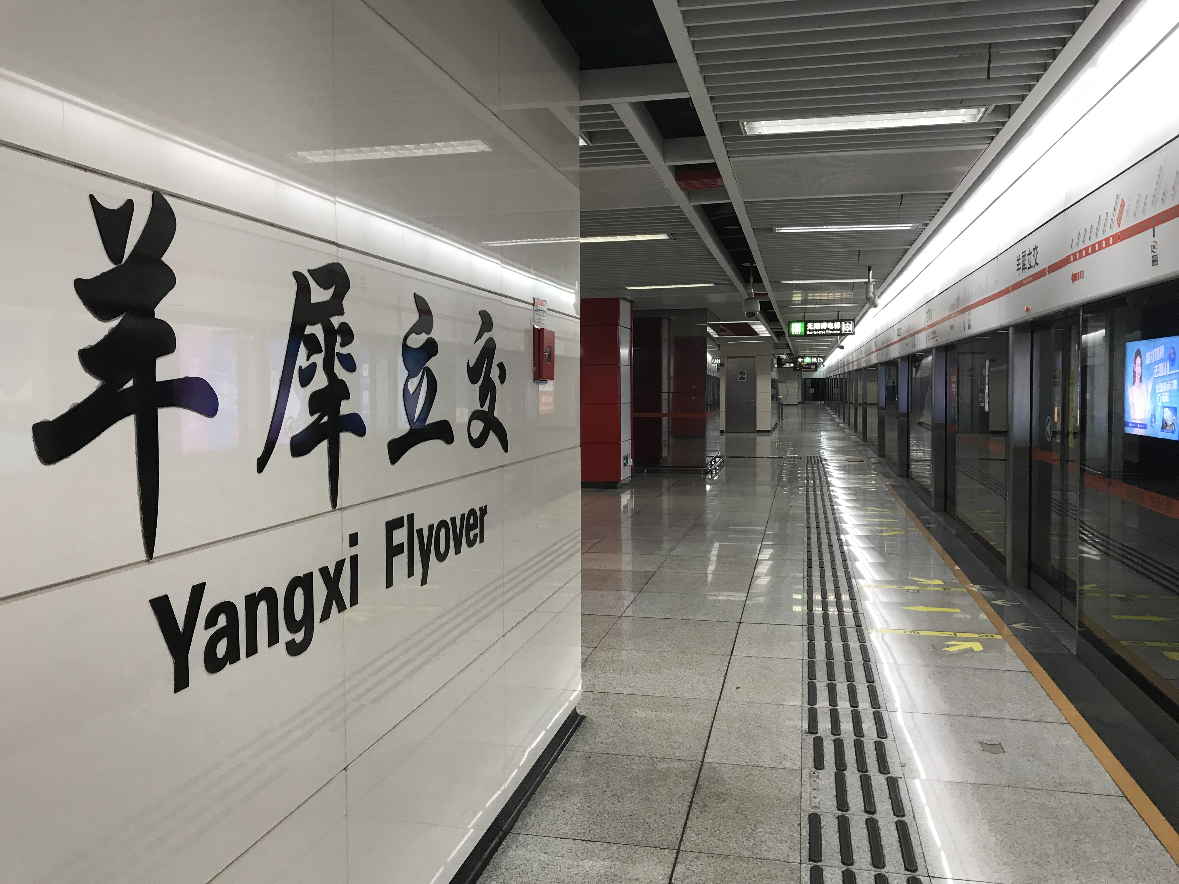 Platform of Yangxi Flyover Station, Chengdu Metro